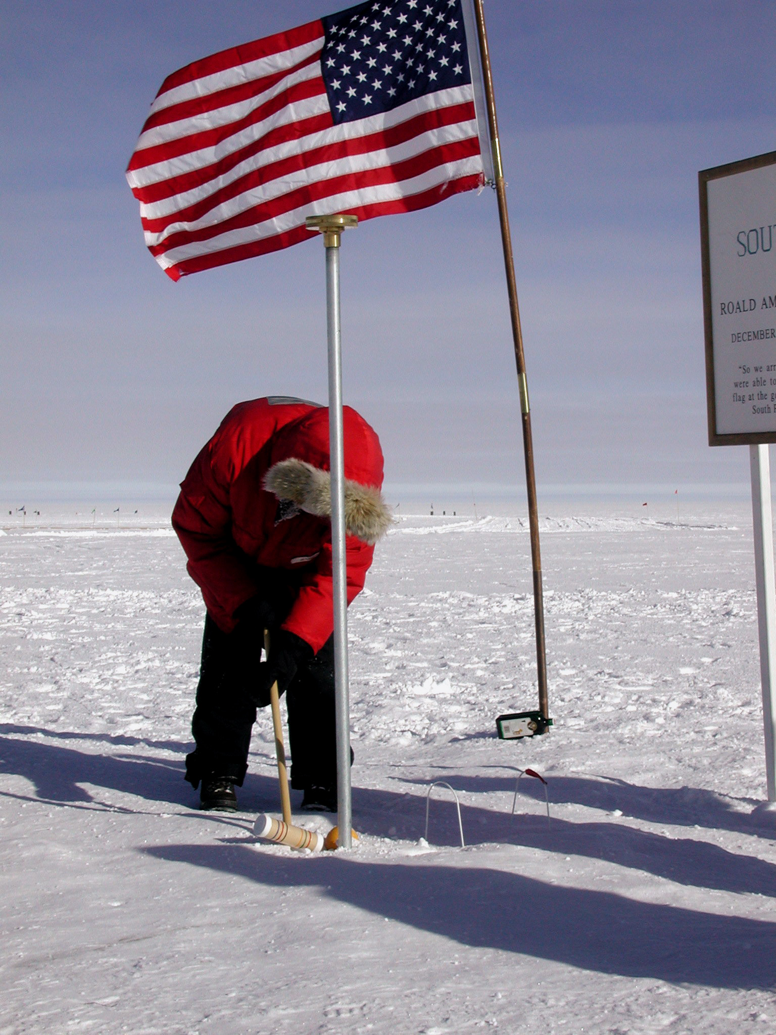 Croquet player at the South Pole.